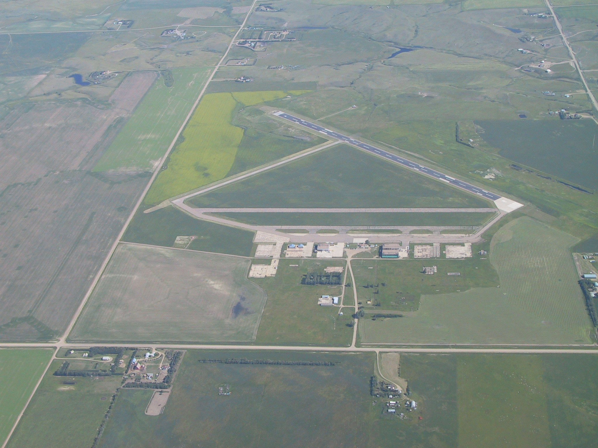 Image released under GFDL by James Strickland July 19, 2006. Website: Original Photo